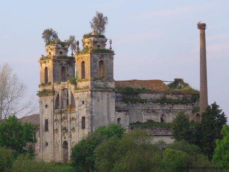 Mosteiro de Seiça 01